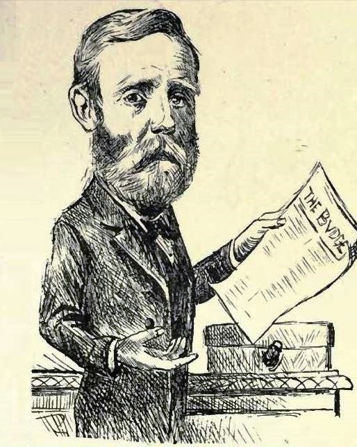 John Gordon Sprigg - 4 times Prime Minister - with the national Budget - Cartoon by WH Schroeder